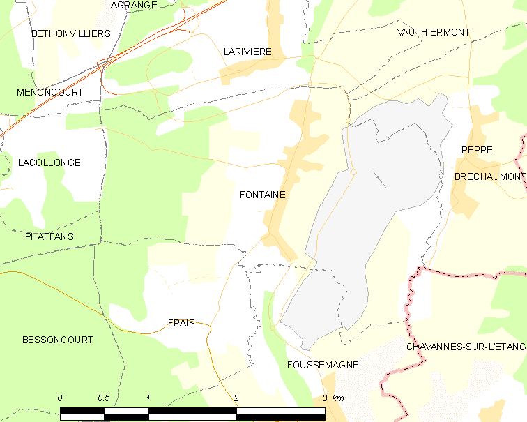 Map of French municipality Fontaine